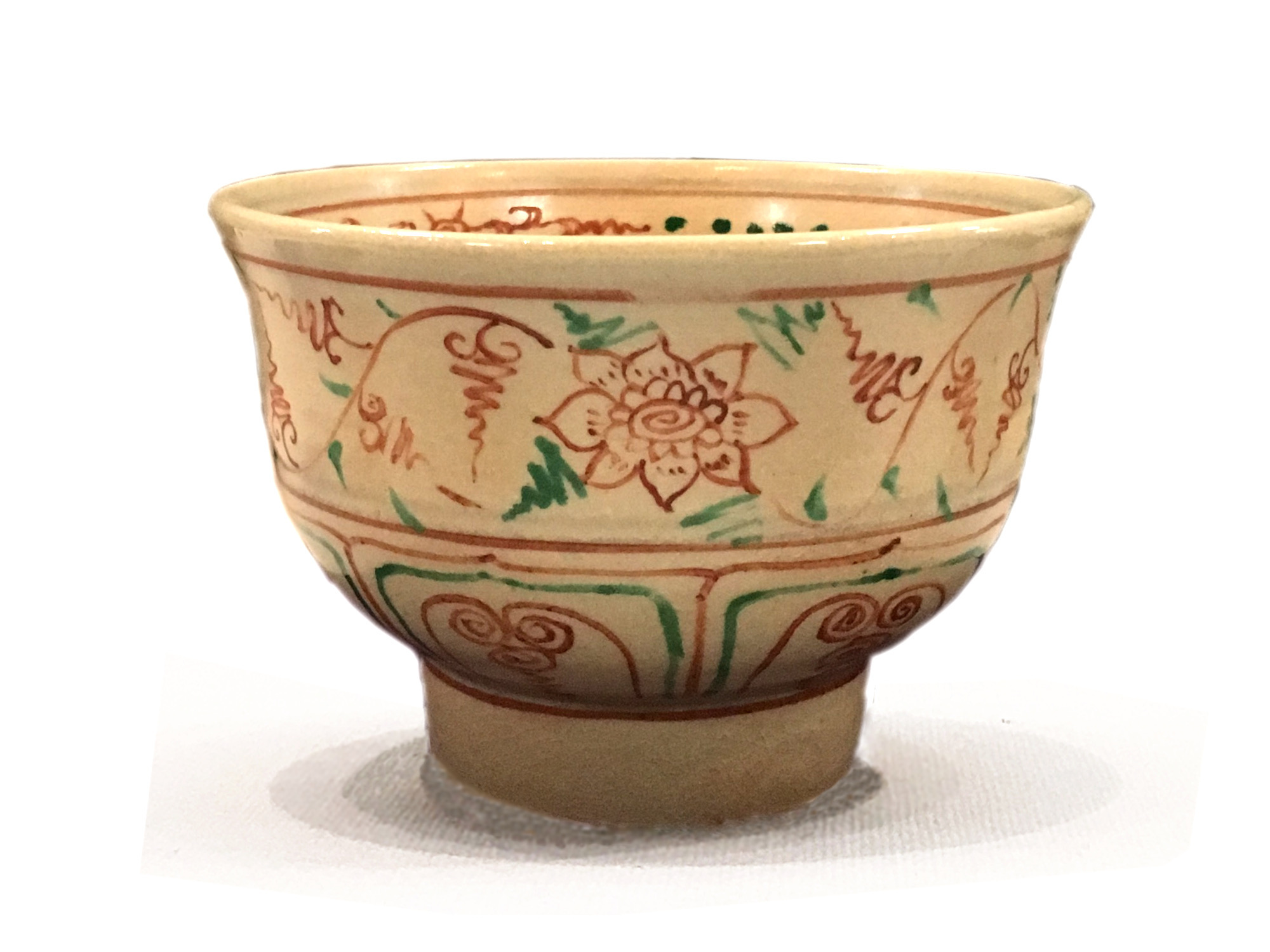 Annan ware chawan used for tea. Image taken at the Tōgyokudō (東玉堂) shop in Nagoya, Japan.